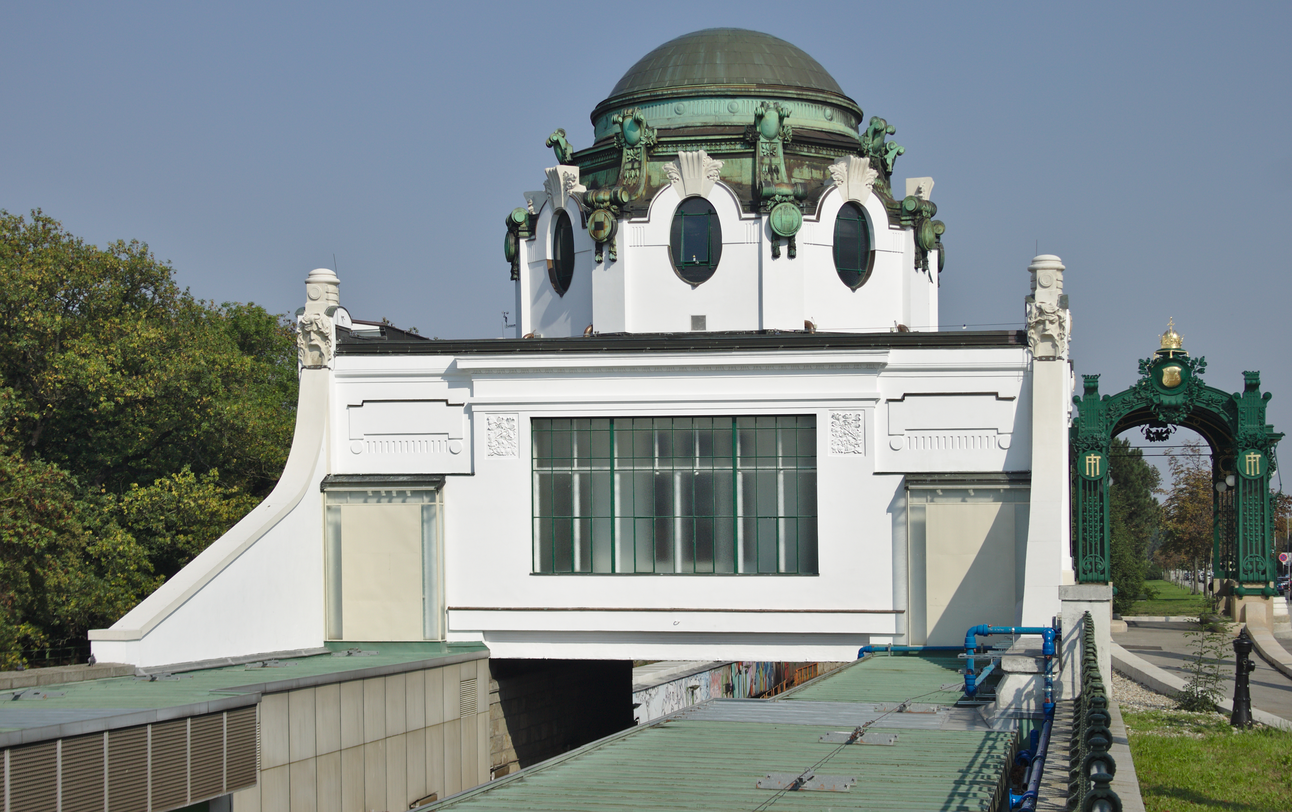 Otto Wagner Hofpavillon Hietzing Dieses Bild wurde anlässlich des österreichischen Tags des Denkmals 2014 in Wien eingereicht.